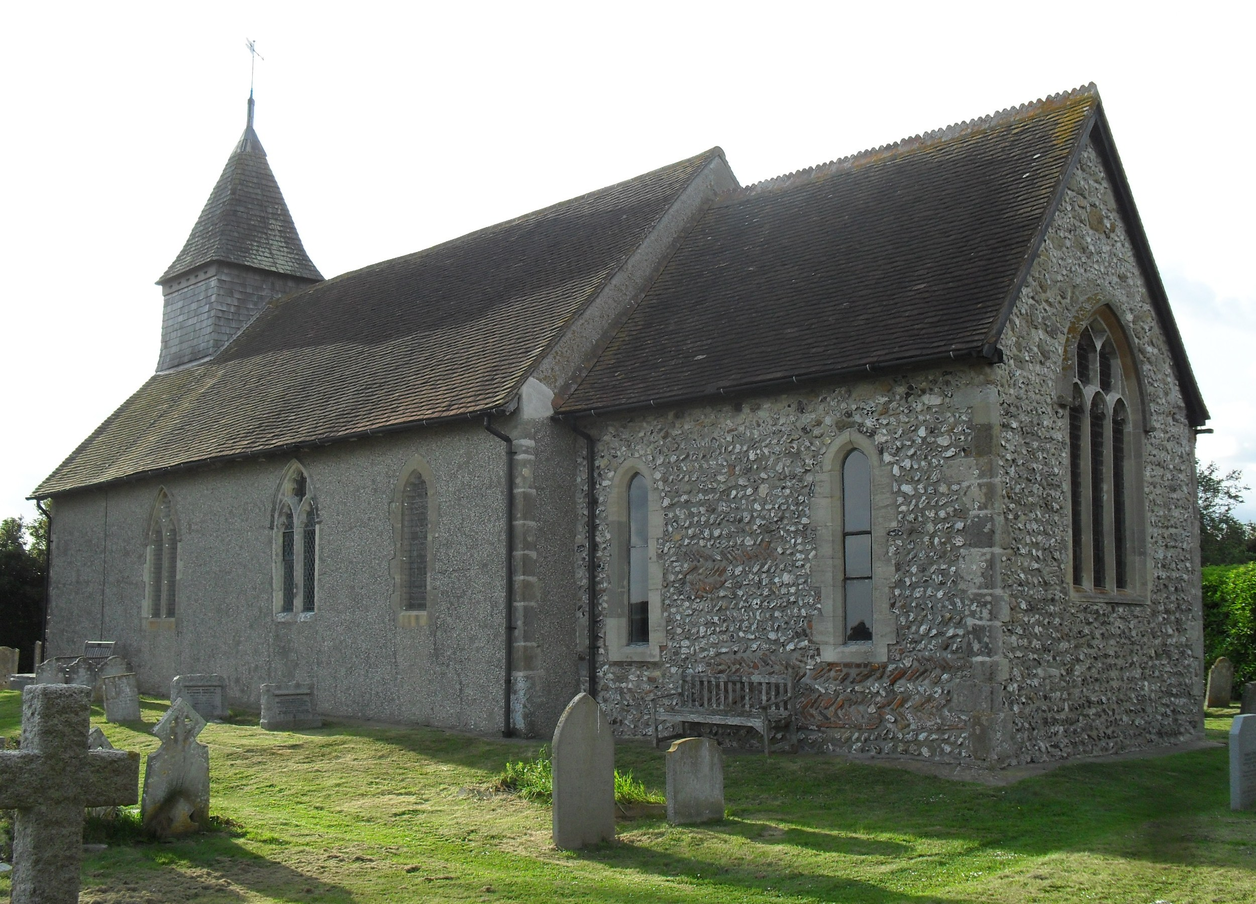 St George's Church, Eastergate, Arun District, West Sussex, England. The ancient parish church of Eastergate. This view looks from the southeast. Listed at Grade II* by English Heritage (NHLE Code 1233516)